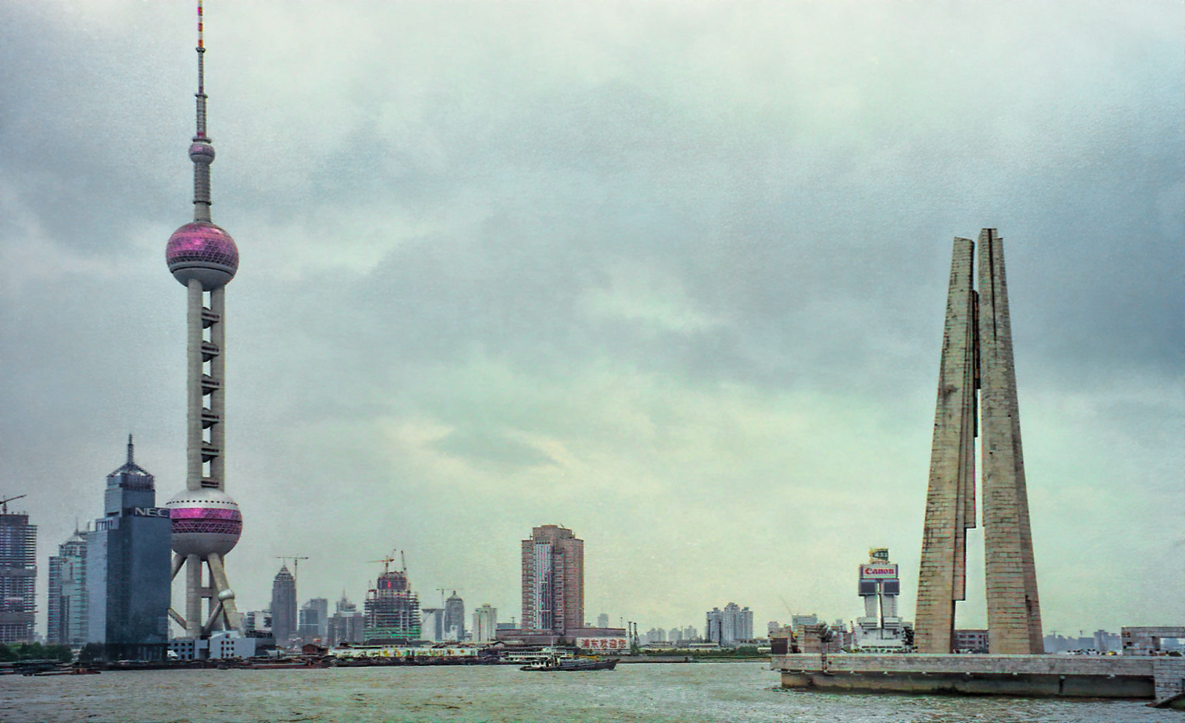 Where the Suzhou Creek (coming in from the right) runs into the Huangpu River—the main waterway through Shanghai—is the Monument to the People's Heroes erected in 1993 in the stylized shape of three rifles leaning against each other. It commemorates revolutionary martyrs plus those who have died fighting natural disasters. To the left on the far (eastern) side of the Huangpu River is the Oriental Pearl TV Tower (468m/1,535ft high) which became the tallest structure in China when completed in 1994. It is one of the first structures to rise in the Pudong [“East Bank”] New Area, a Special Economic Zone targeted to finance and trade established in 1993. On Google Earth: Monument to the People's Heroes 31°14'39.25"N, 121°29'13.05"E Oriental Pearl TV Tower 31°14'30.72"N, 121°29'43.01"E